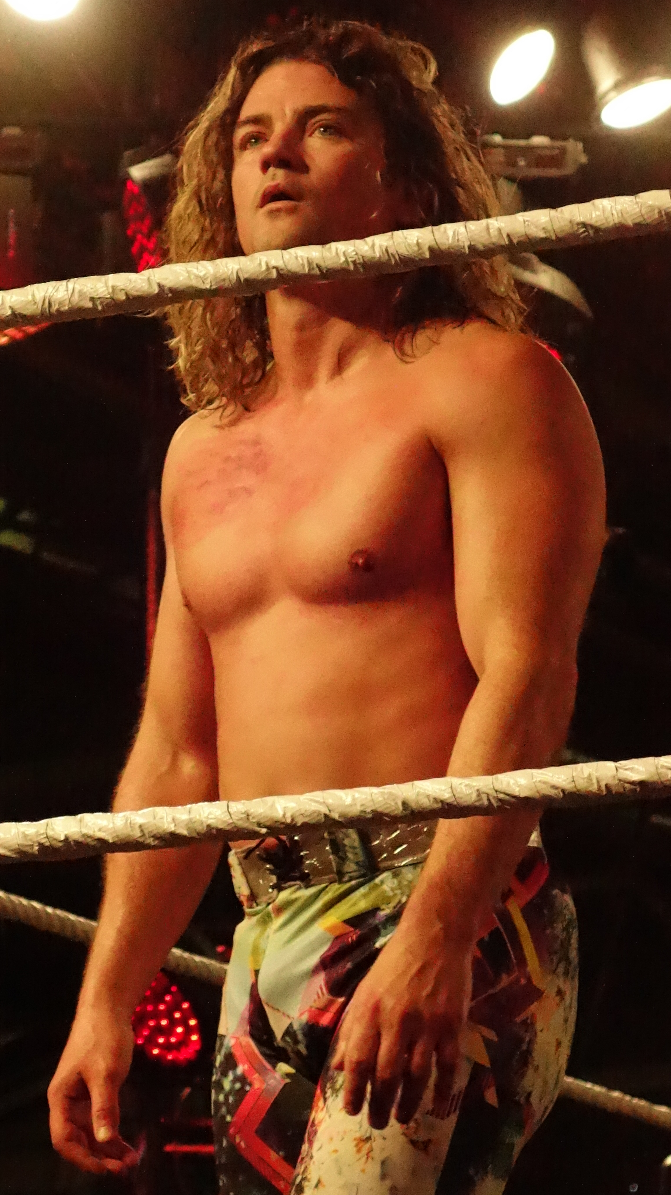 Professional wrestler, Brian Kendrick on April 6, 2019 at a WWE event.